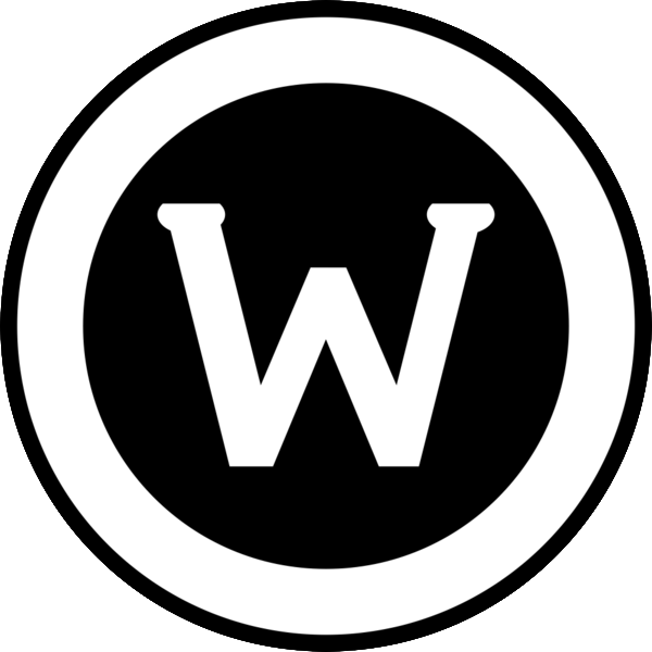 Logo of former german football club Wacker Bernburg (1910-1945)